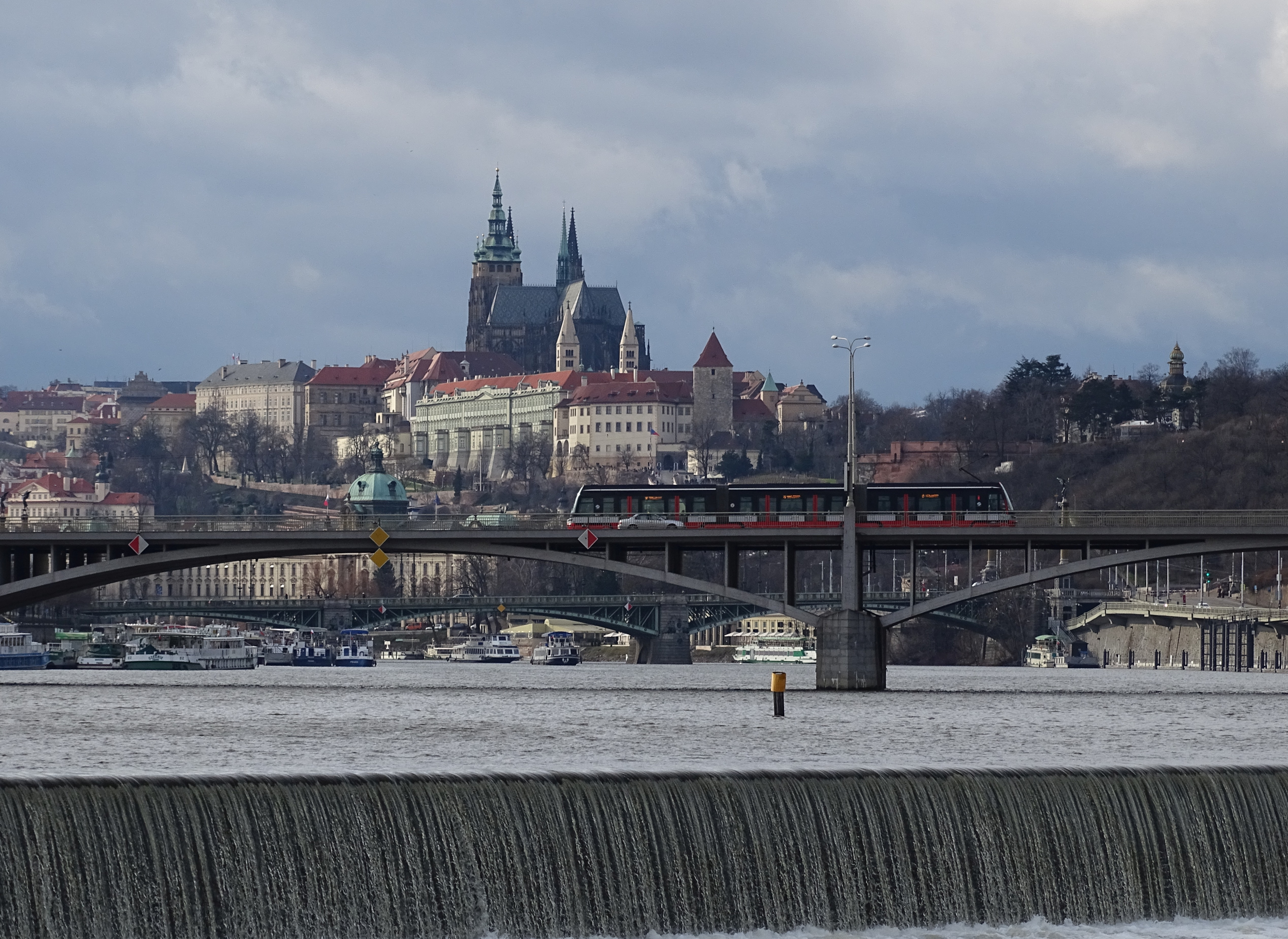 Prague-Holešovice, Czech Republic. Prague Castle from Štvanice island.